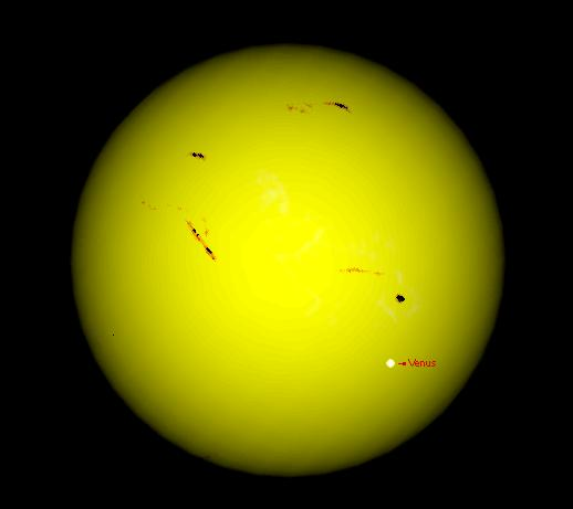 The 2004 venus transit, as viewed from Jerusalem. Created using the StarryNight software.